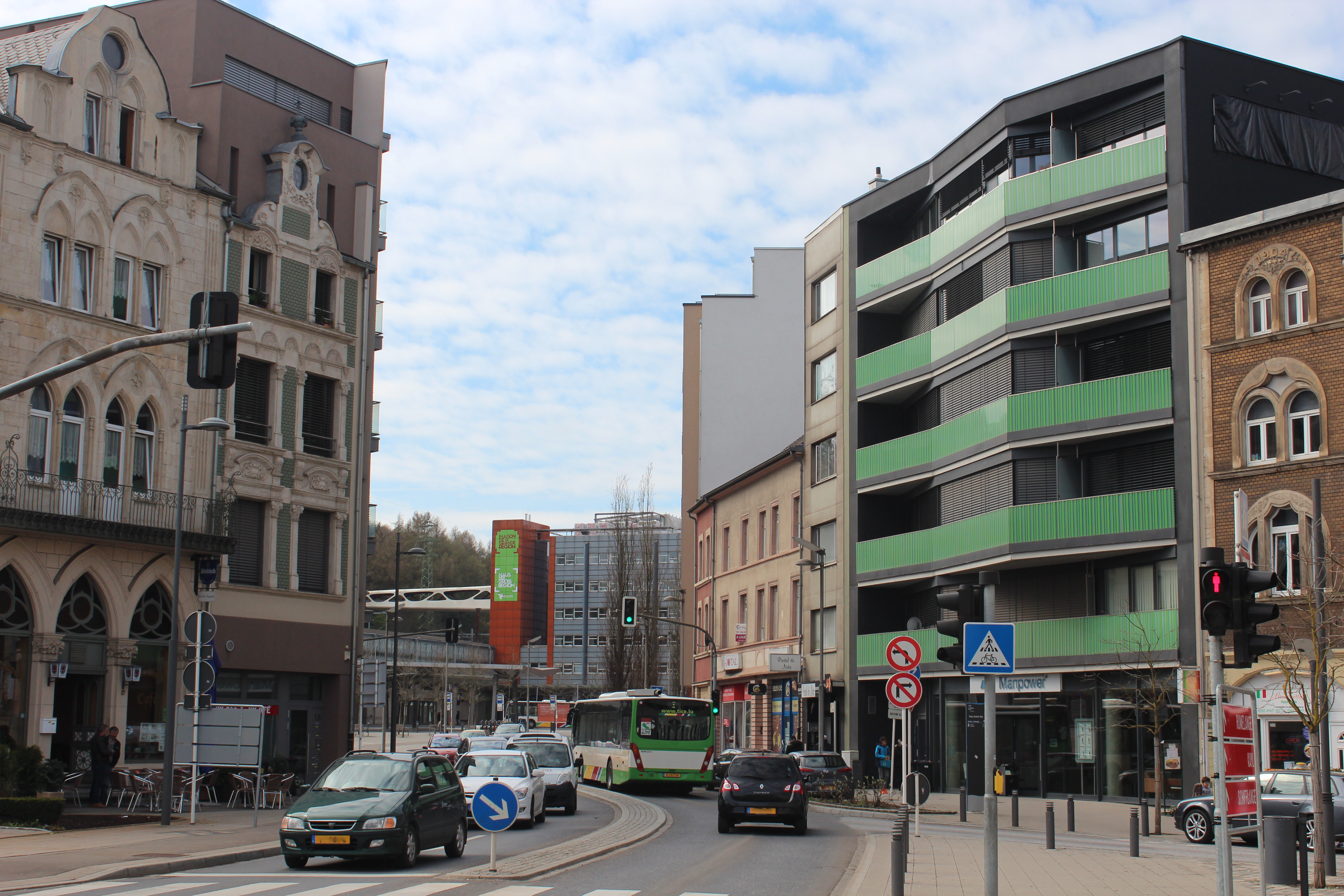 Boulevard John-F.-Kennedy, Esch-sur-Alzette, seen from Place Norbert-Metz